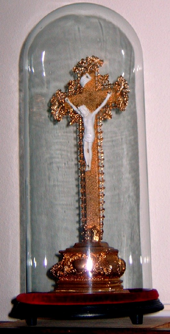 A crucifix in a bell jar.